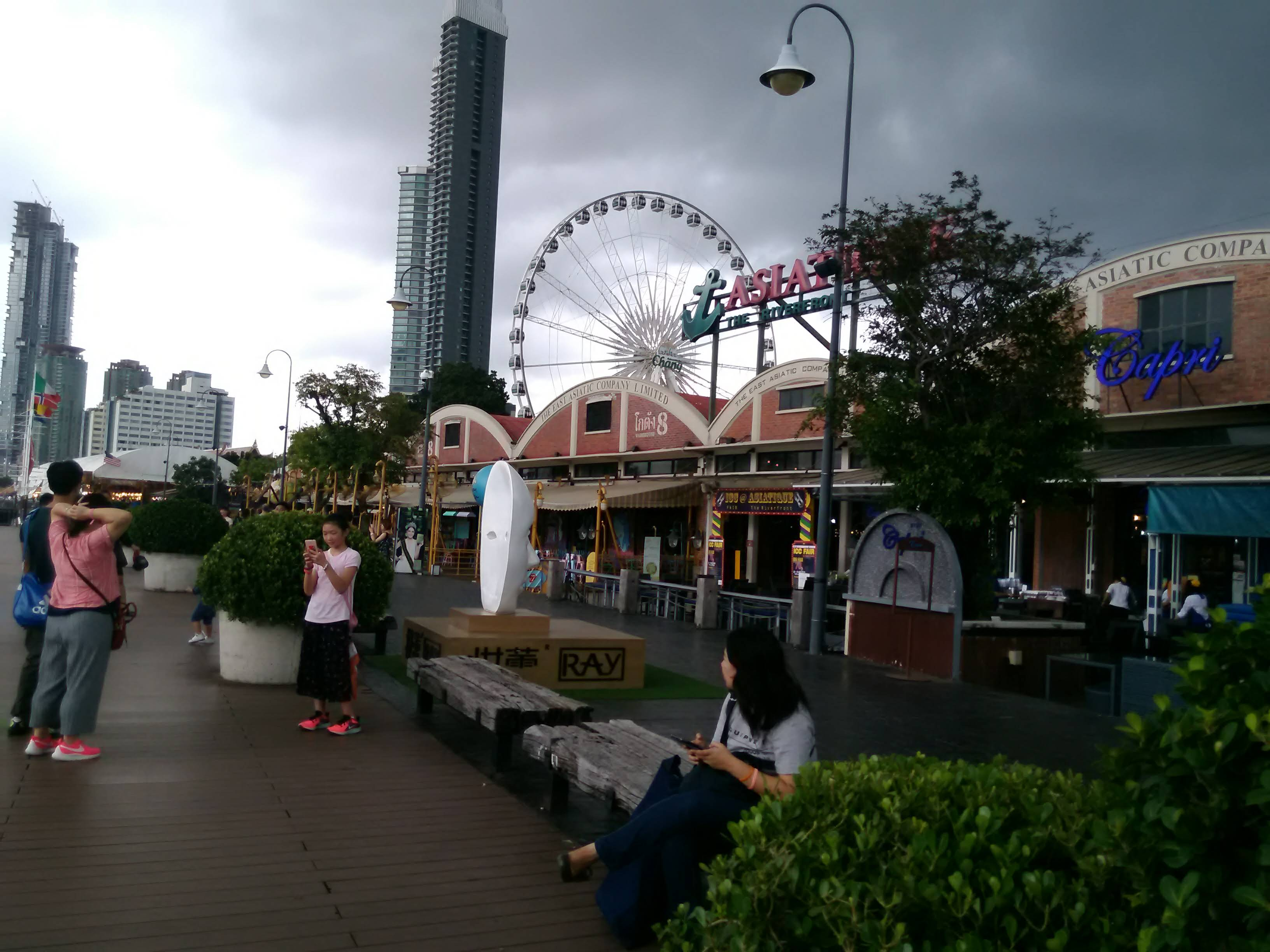 Asiatique The Riverfront - A wharf02